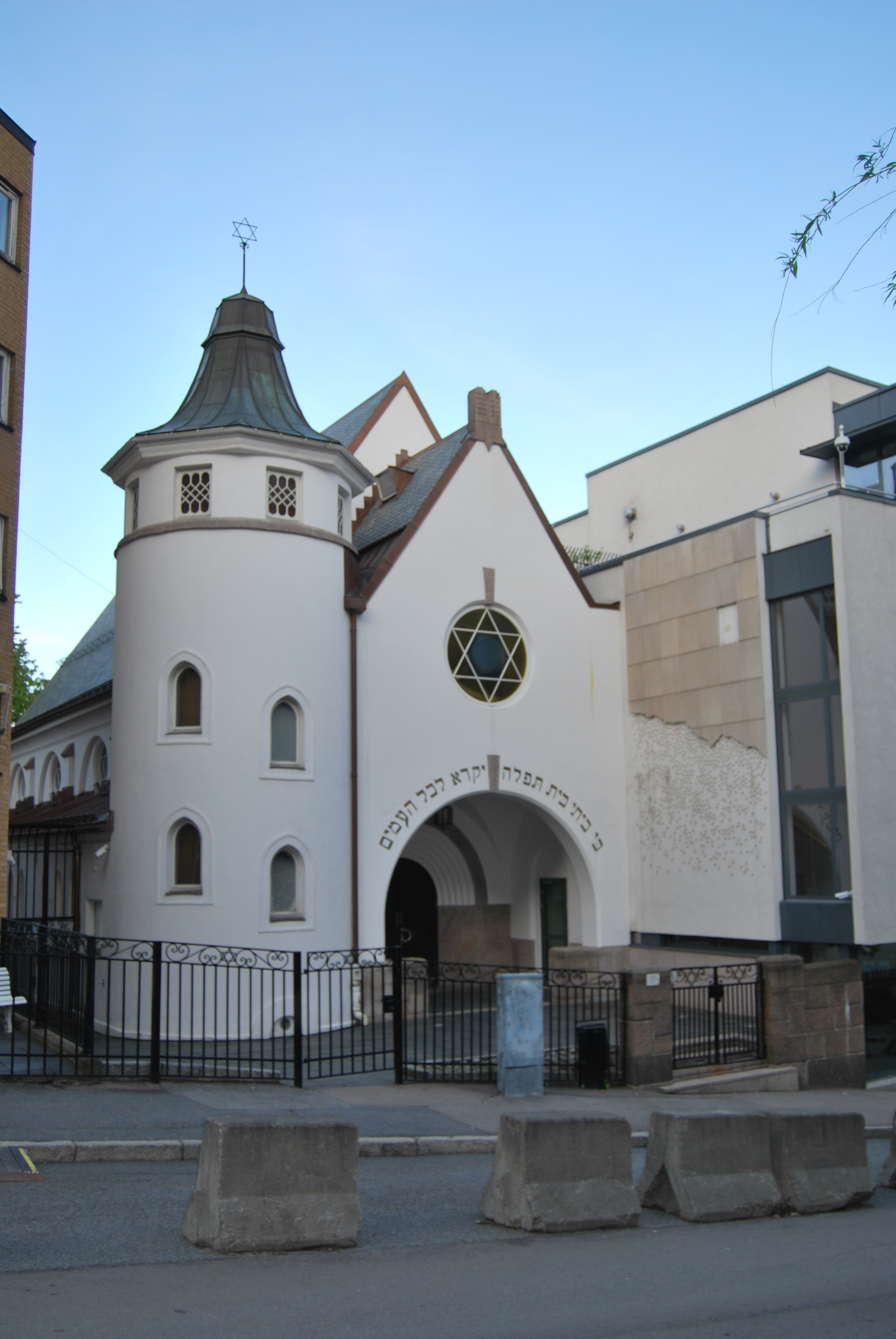 Synagogue in Oslo, Norway